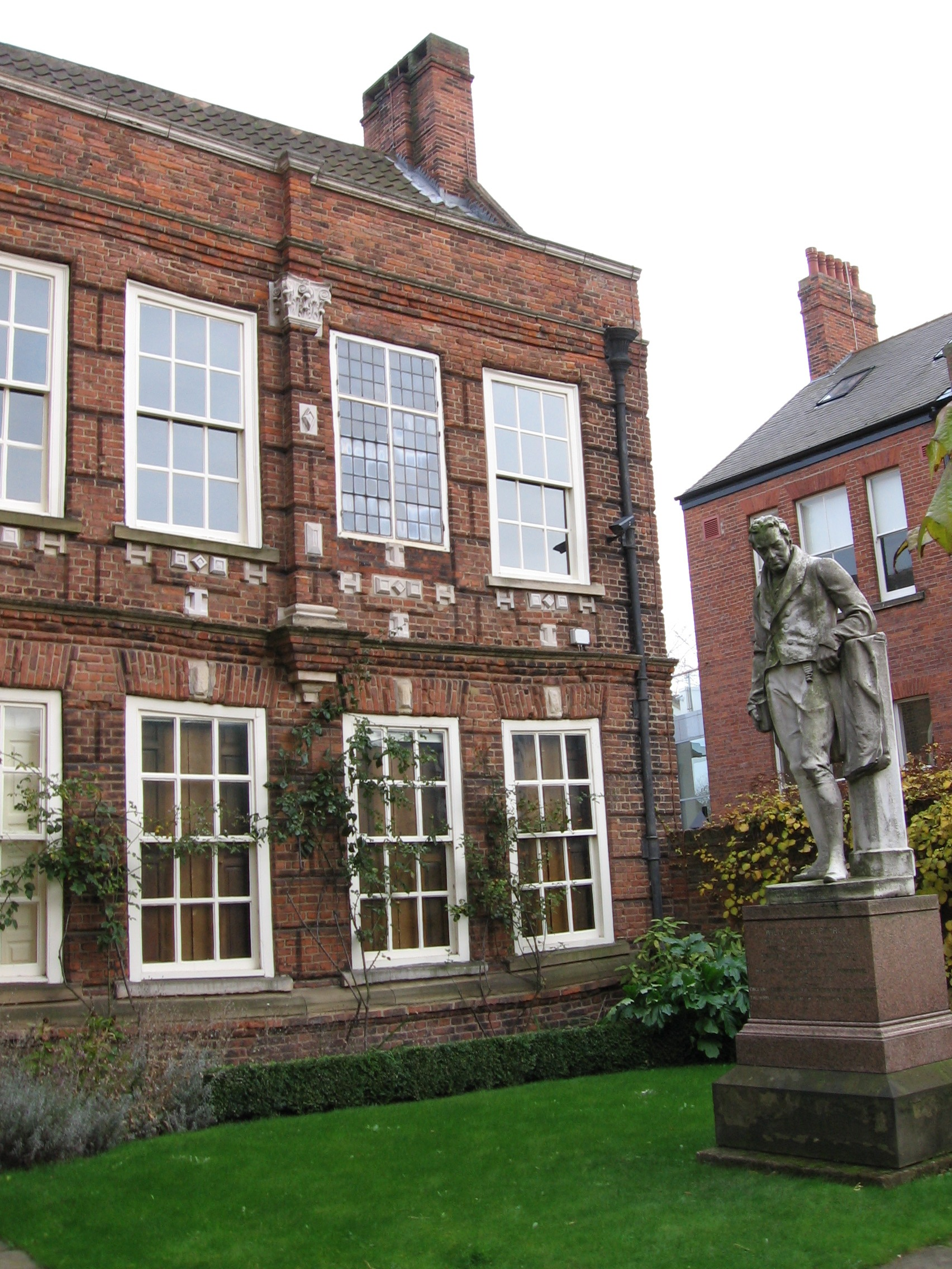 A statue of William Wilberforce, located outside Wilberforce House, High Street, Hull, East Riding of Yorkshire, England.